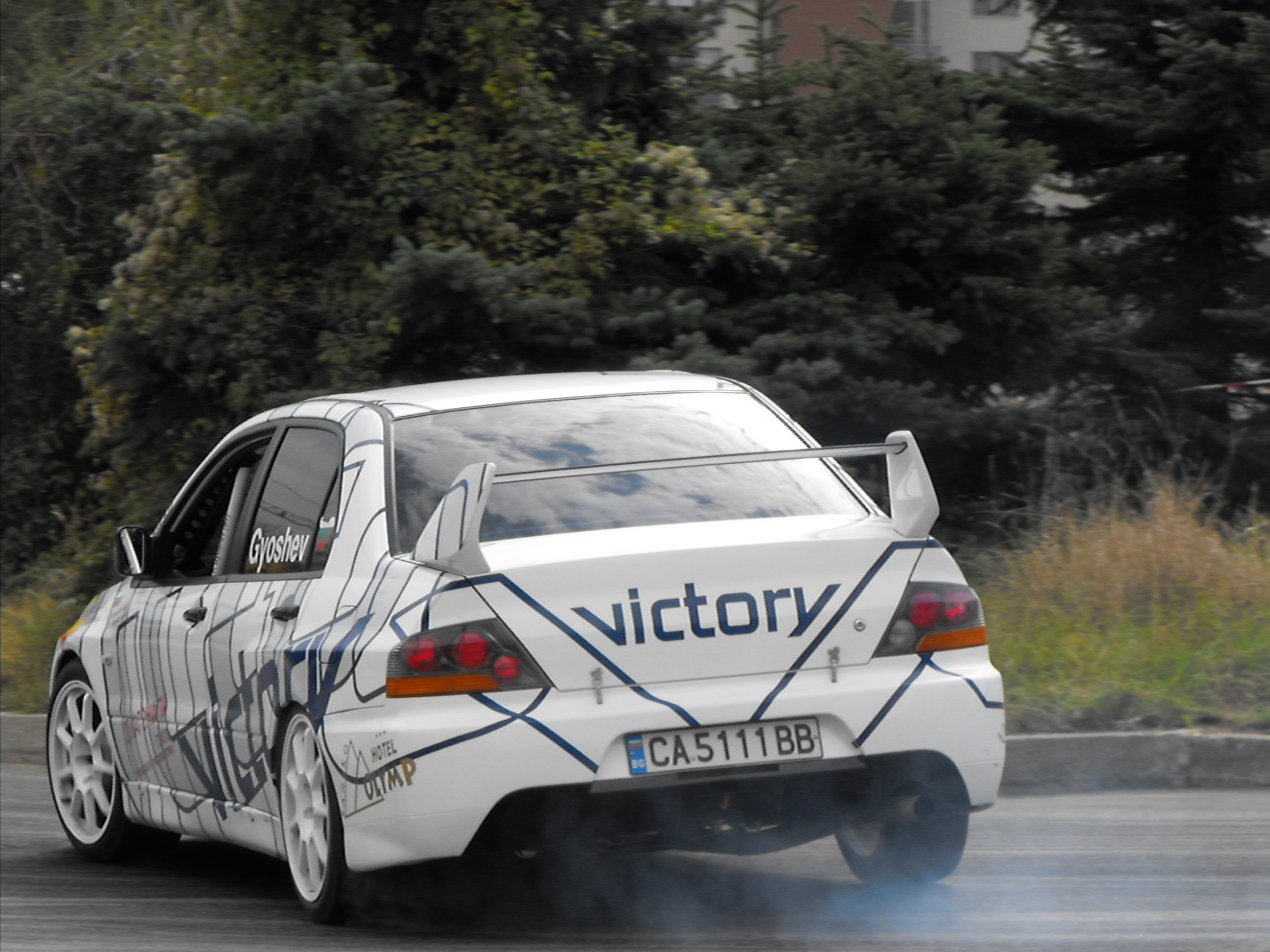 Petar Gyoshev - (Mitsubishi Lancer Evolution IX gr. N), Rallye Sofia 2009